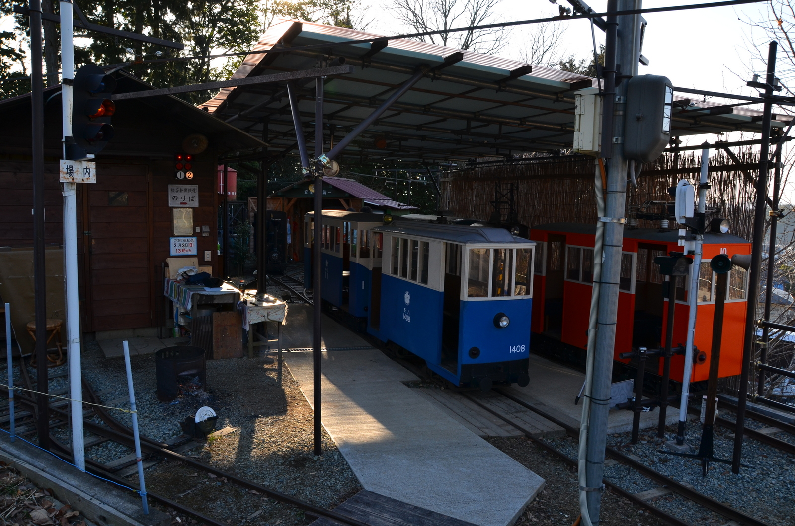 Kaze-No-Toge Station on the 15" gauge privately-owned Sakuradani Light Railway in Osaka, Japan